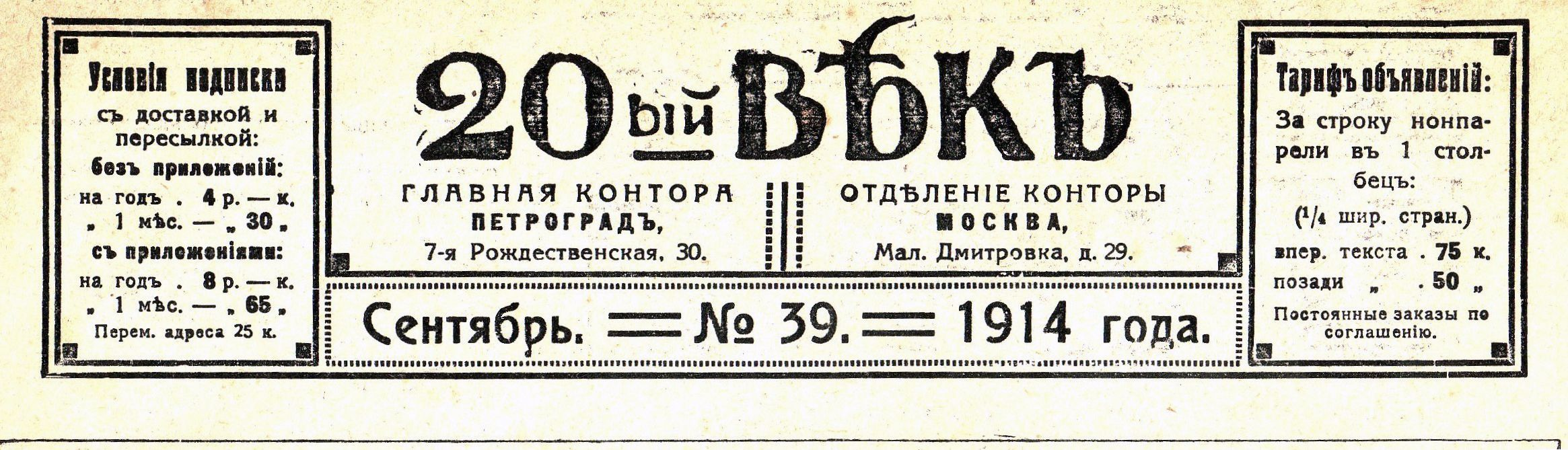 Russian magazine "20 century" (russian, pronounced as Dvadtzatii vek), issue 39, September 1914. Title of the first page.